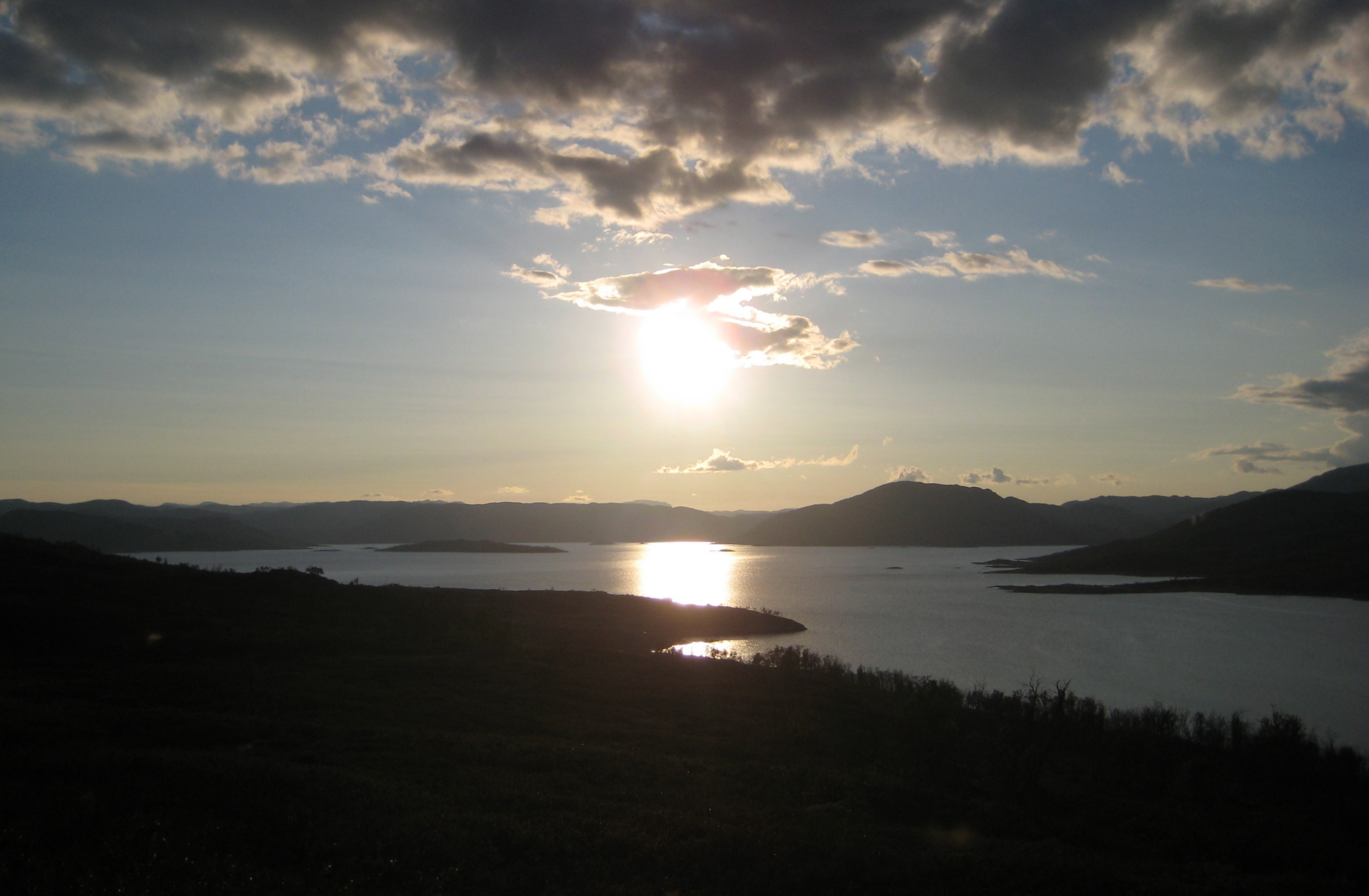 Evening at Songavatnet